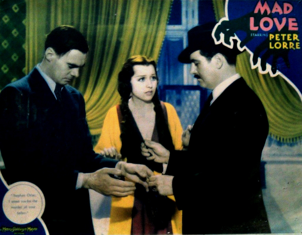 Poster for the 1935 film Mad Love. The item has no copyright markings on it as can be seen in the link above. At bottom right is Country of Origin USA.